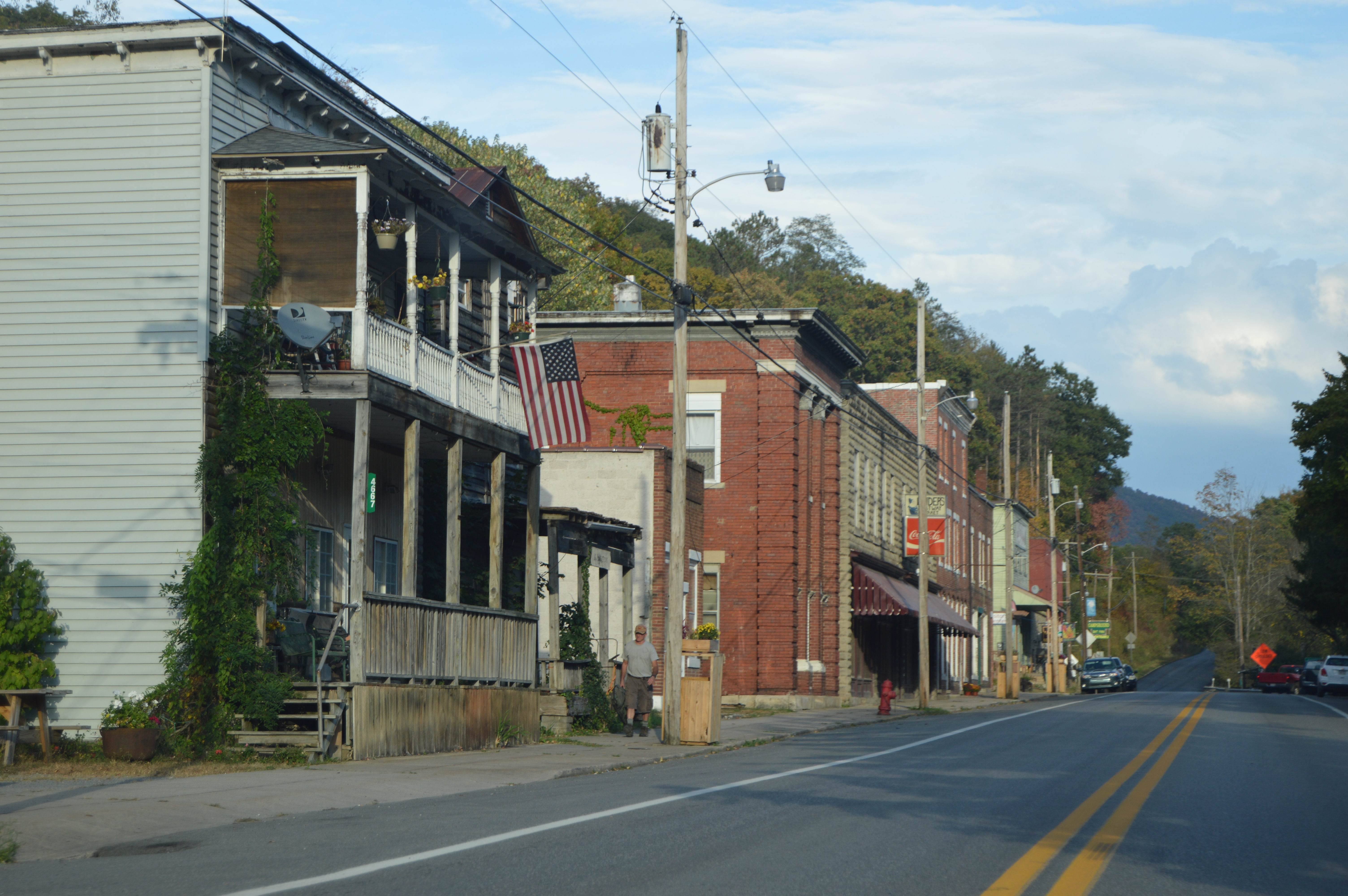 Buildings on the old Staunton-Parkersville Turnpike (U.S. Route 250/West Virginia Route 92) in the central business district of Durbin in Pocahontas County, West Virginia, United States.